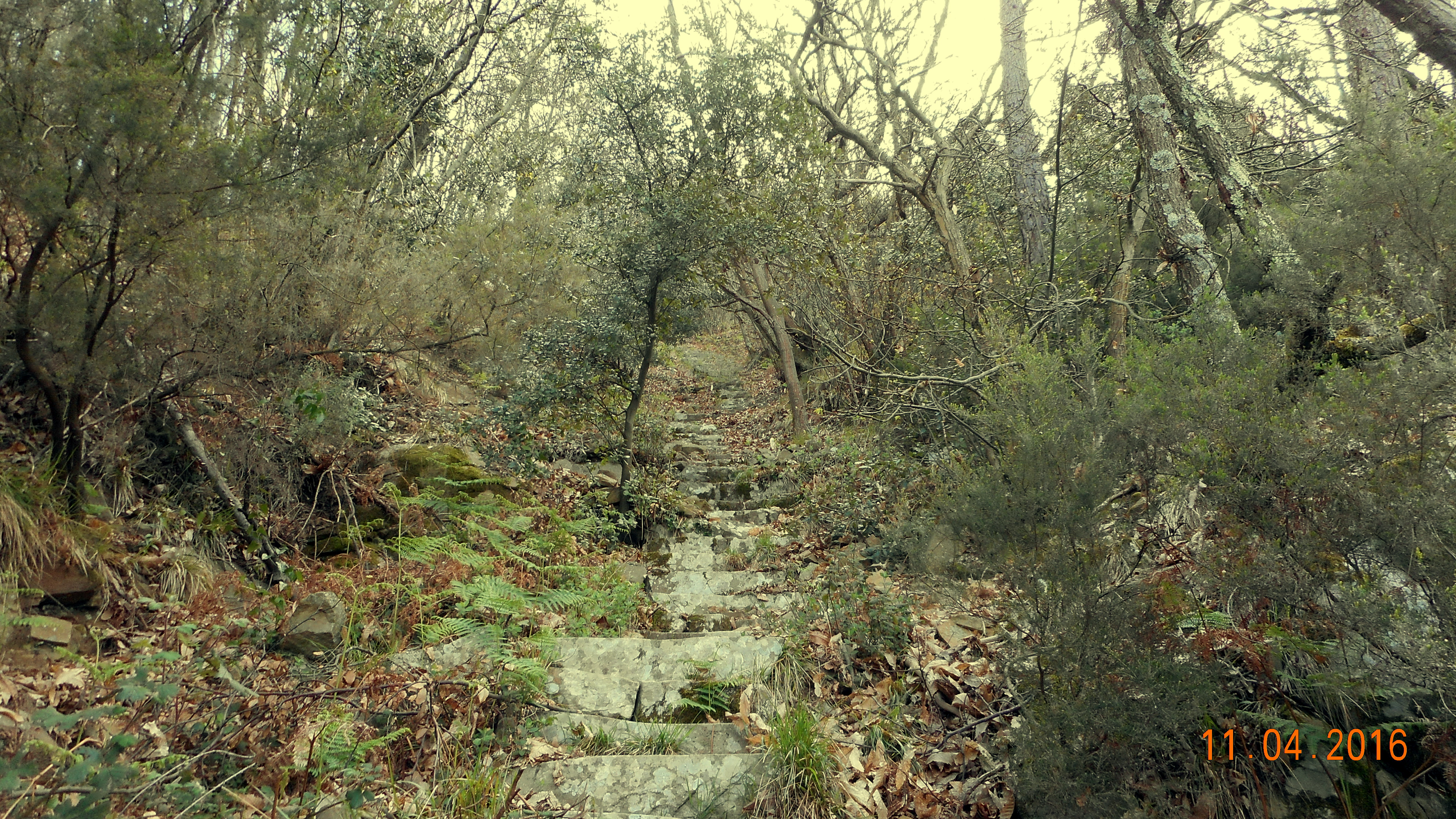 Un dislivello esagerato, sembra di salire in verticale